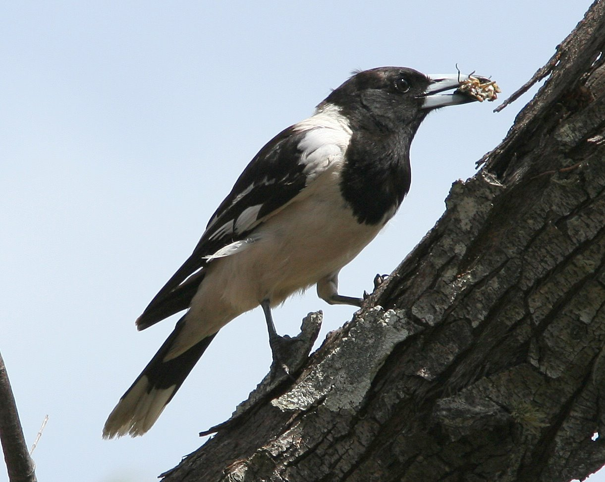 Pied Butchrbird, Cracticus nigrogularis; wild bird